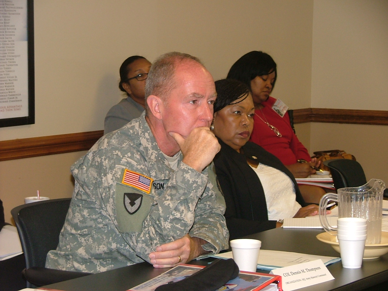 Col. Dennis M. Thompson, AMC Chief of staff, and Jean James, AMC director of EEO, listen to briefings at the annual AMC EO and EEO roundtable in Huntsville, Ala. Sept. 15-17. U.S. Army photo.